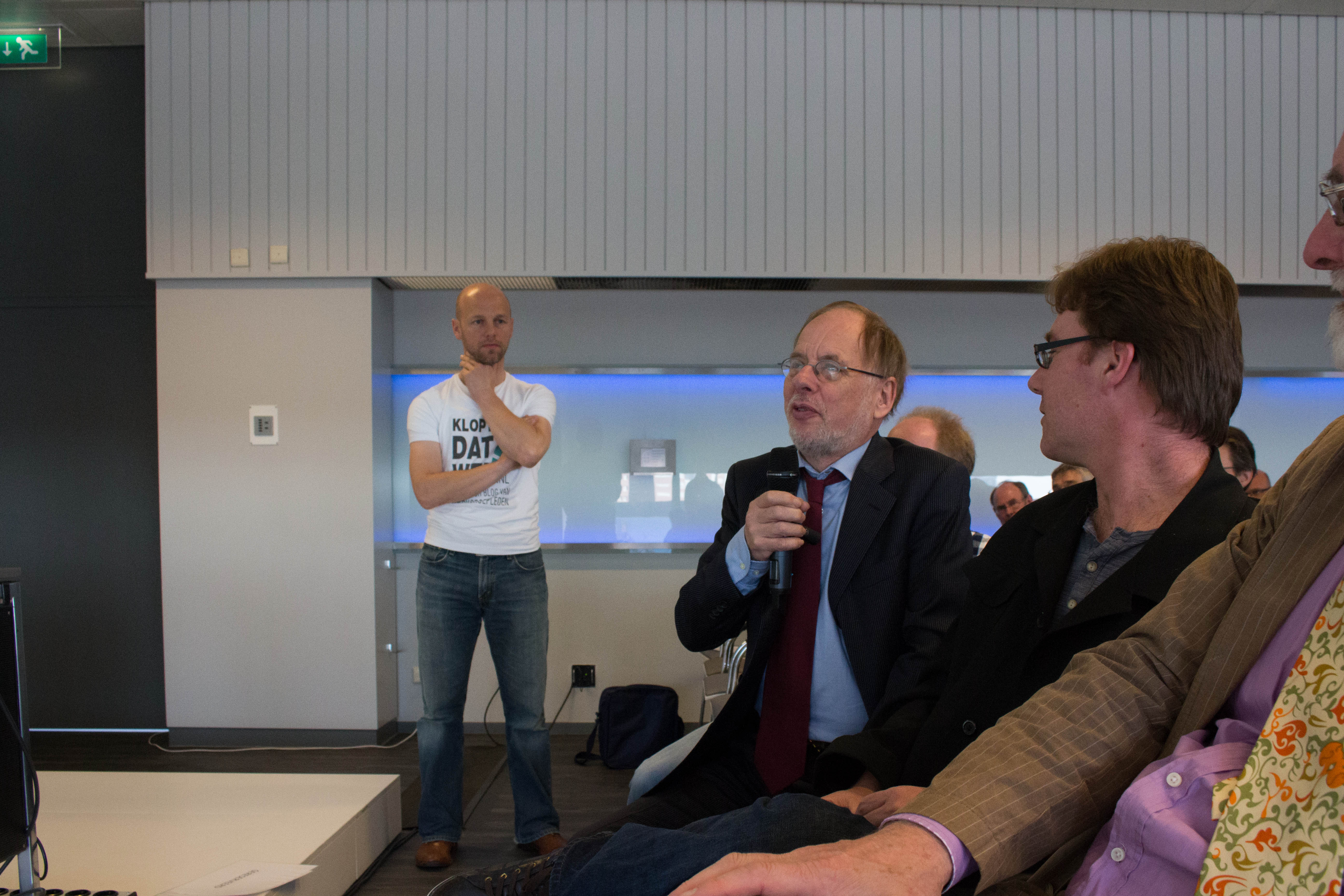 2014 Skepsis congres - crisis in science